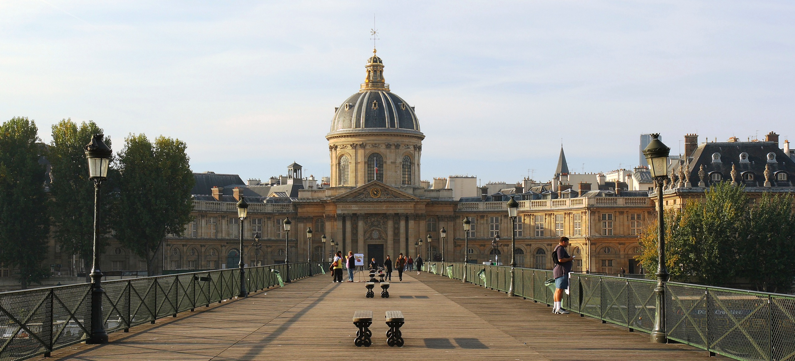 French Institute (Institut de France), seen from the bridge of arts (pont des arts).